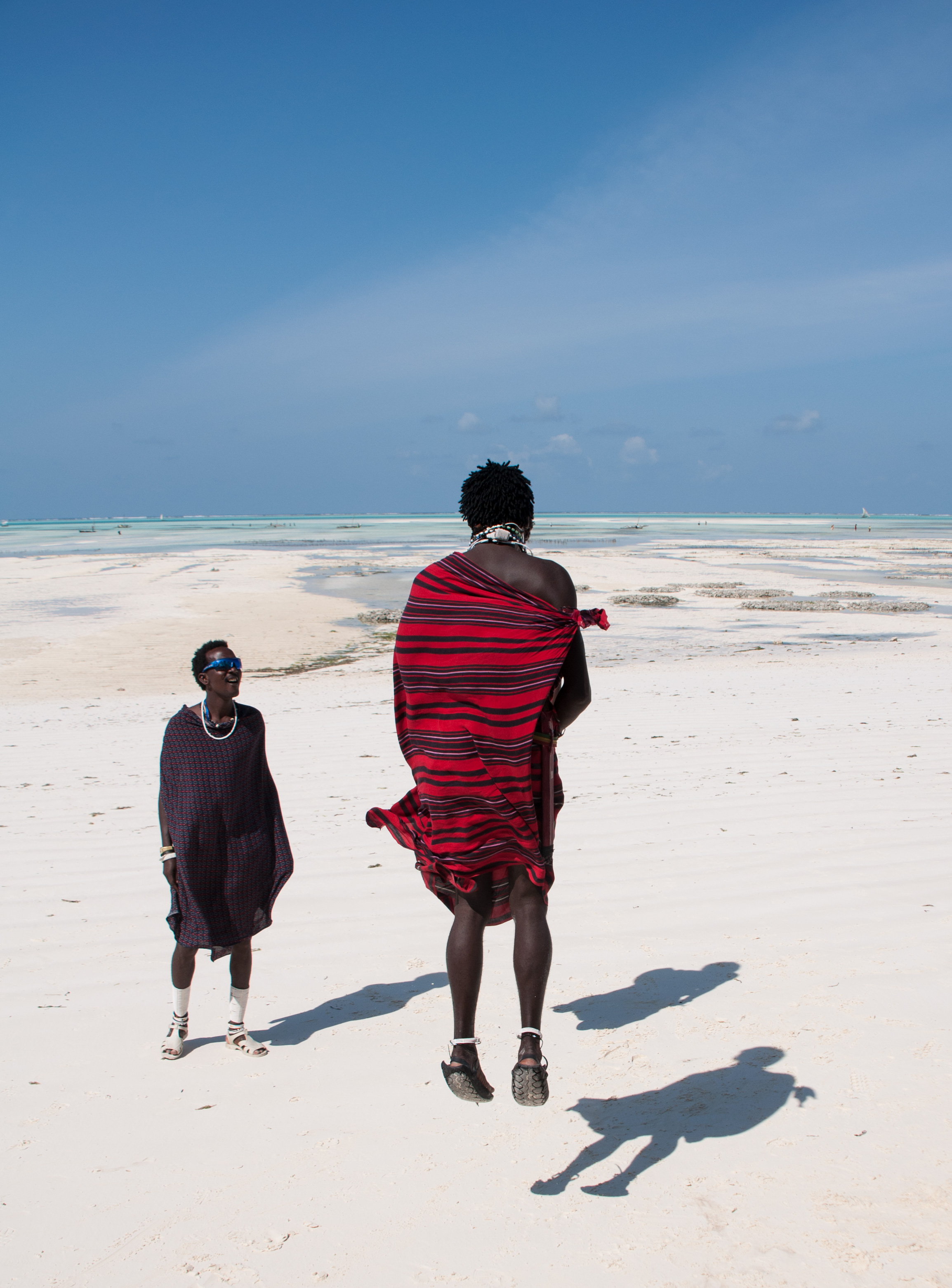 3 Shadows?